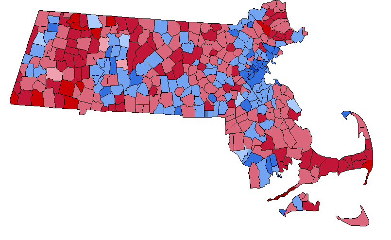 Massachusetts presidential election results by municipality, November 1972